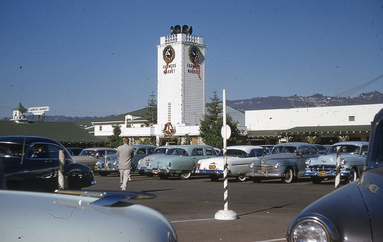 The market in 1953-54